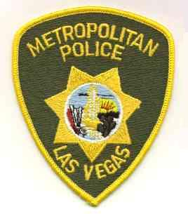 LVMPD patch.